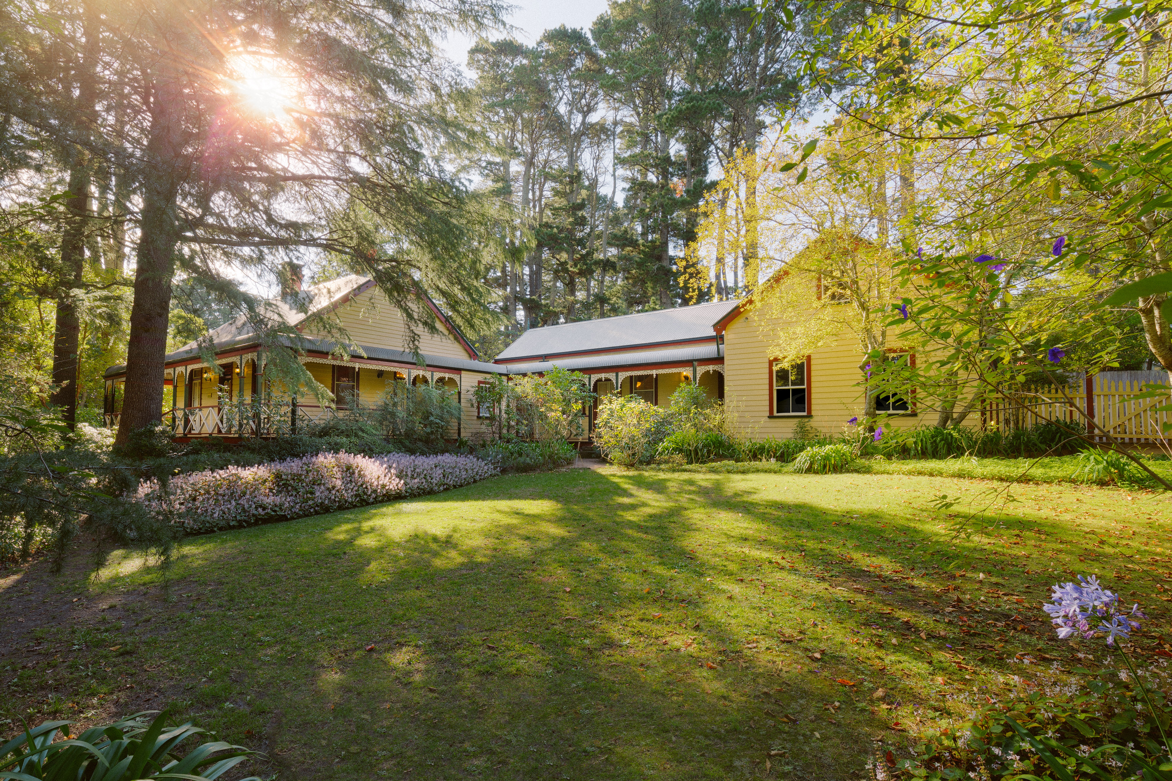 Photograph of historic house Glen Isla located in Wentworth Falls, NSW in the Blue Mountains.